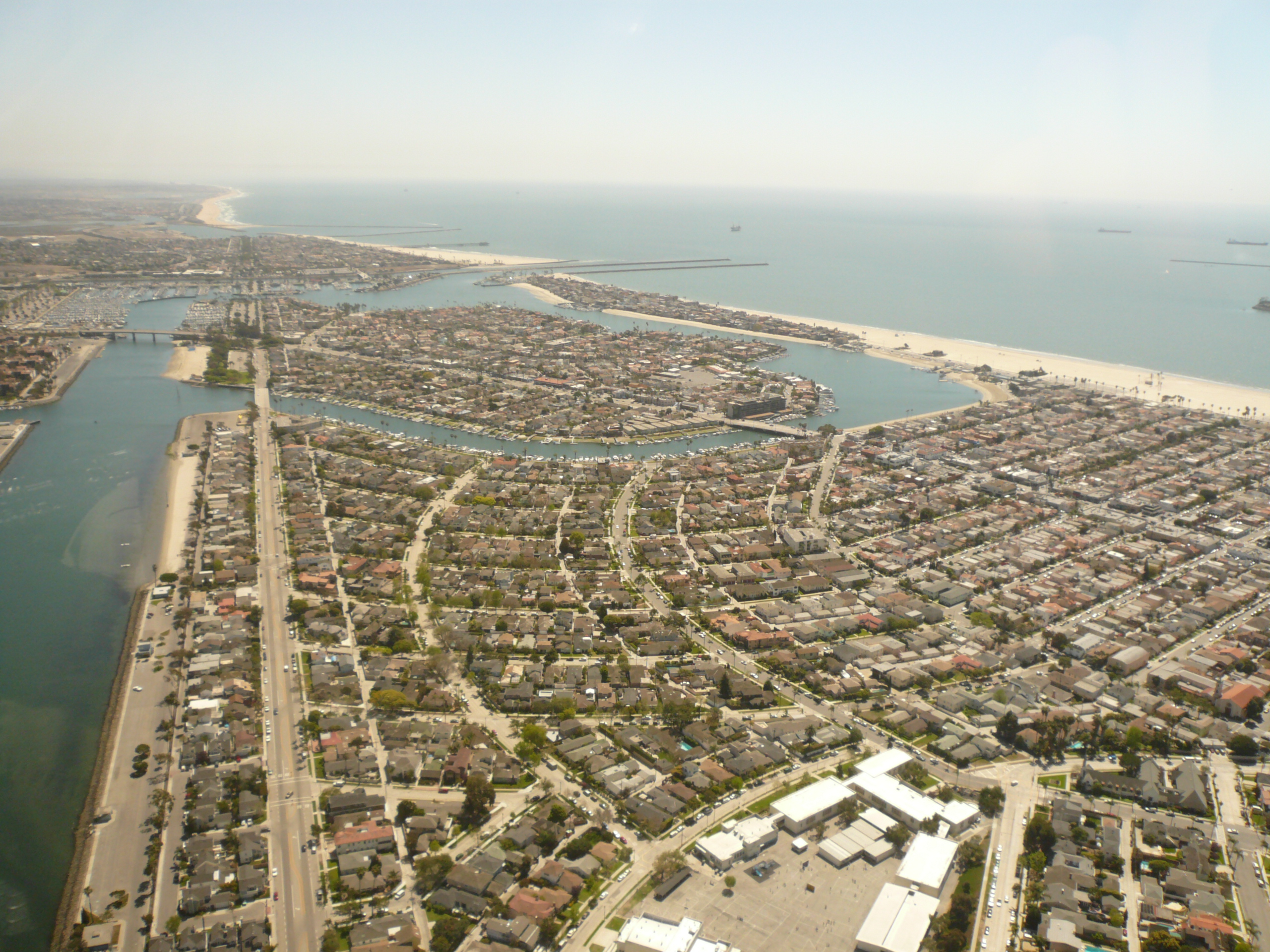 Belmont Park, Naples Island, and The Peninsula neighborhoods of Long Beach, California, looking southeast.